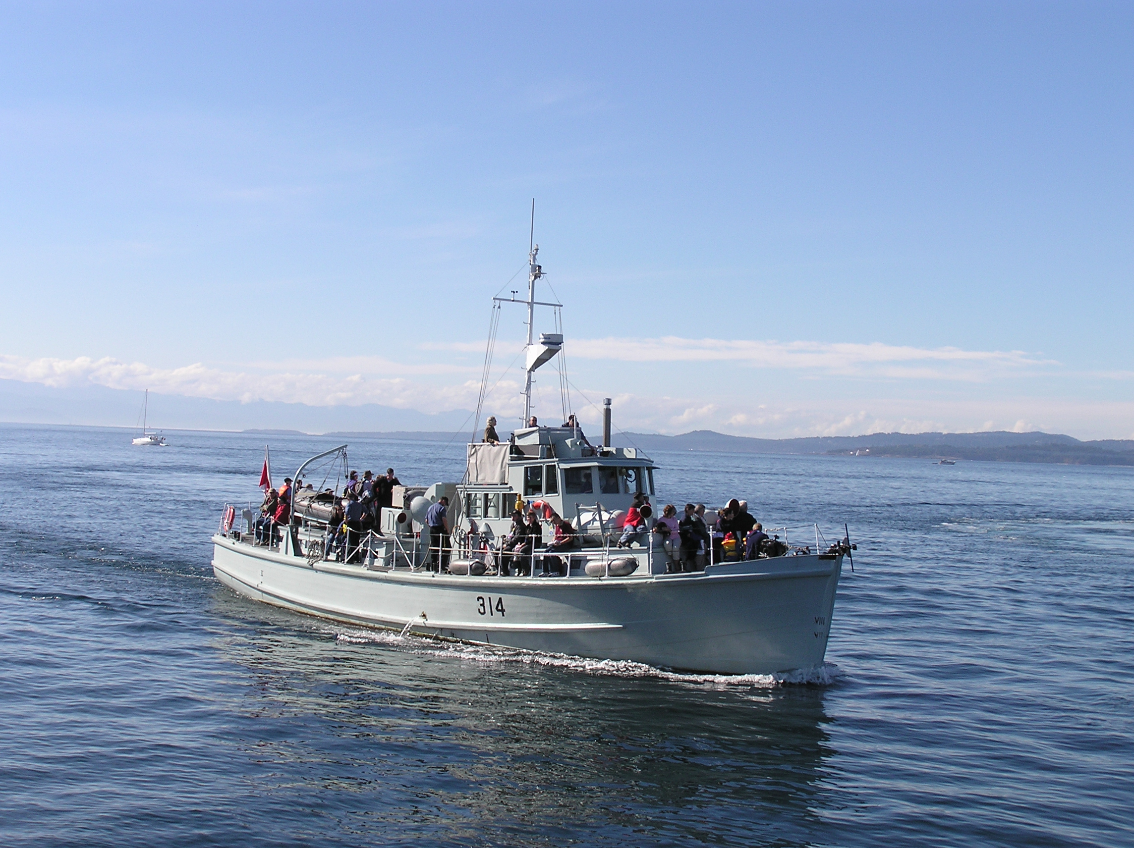 Photo taken by me at Navy Days 2006 in Victoria, BC.